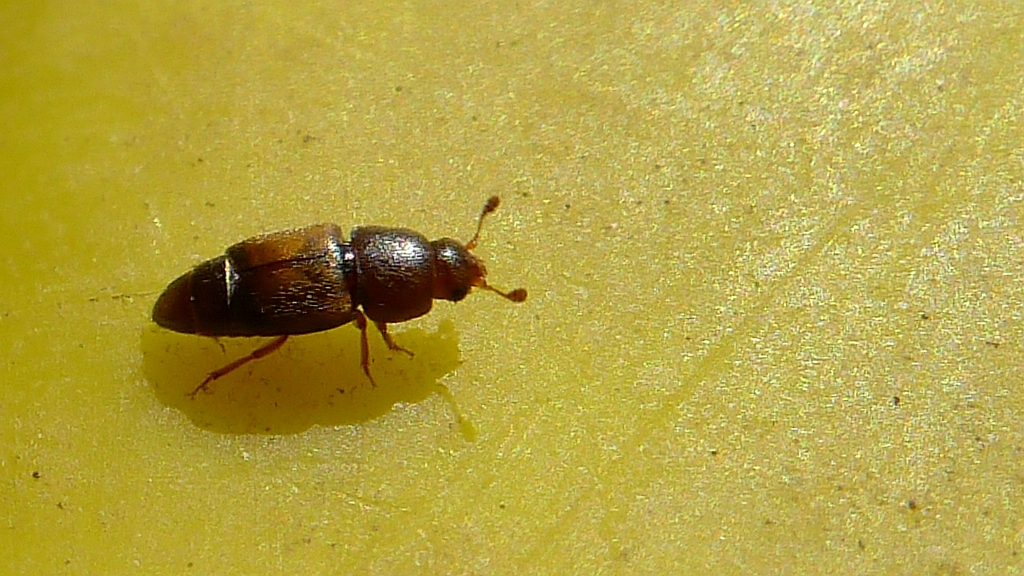 A Cornsap Beetle, possibly Carpophilus dimidiatus. Hanging around the compost bin, Como NSW Australia, July 2012.